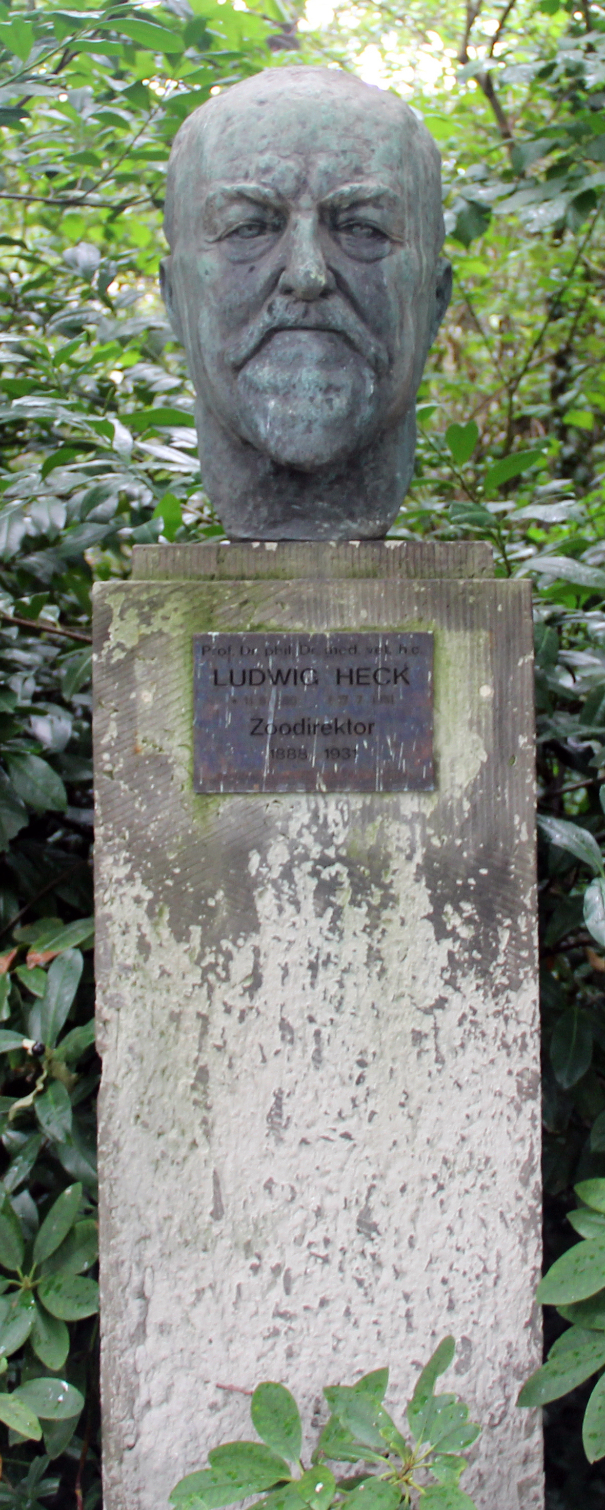 Bust, Ludwig Heck by Else Fraenkel-Brauer, 1955, Hardenbergplatz 8, Berlin-Tiergarten, Germany